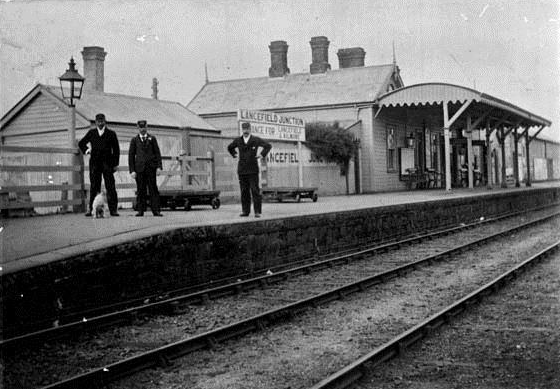 Clarkefield railway station, Victoria, Australia, when it was known as "Lancefield Junction" in 1890